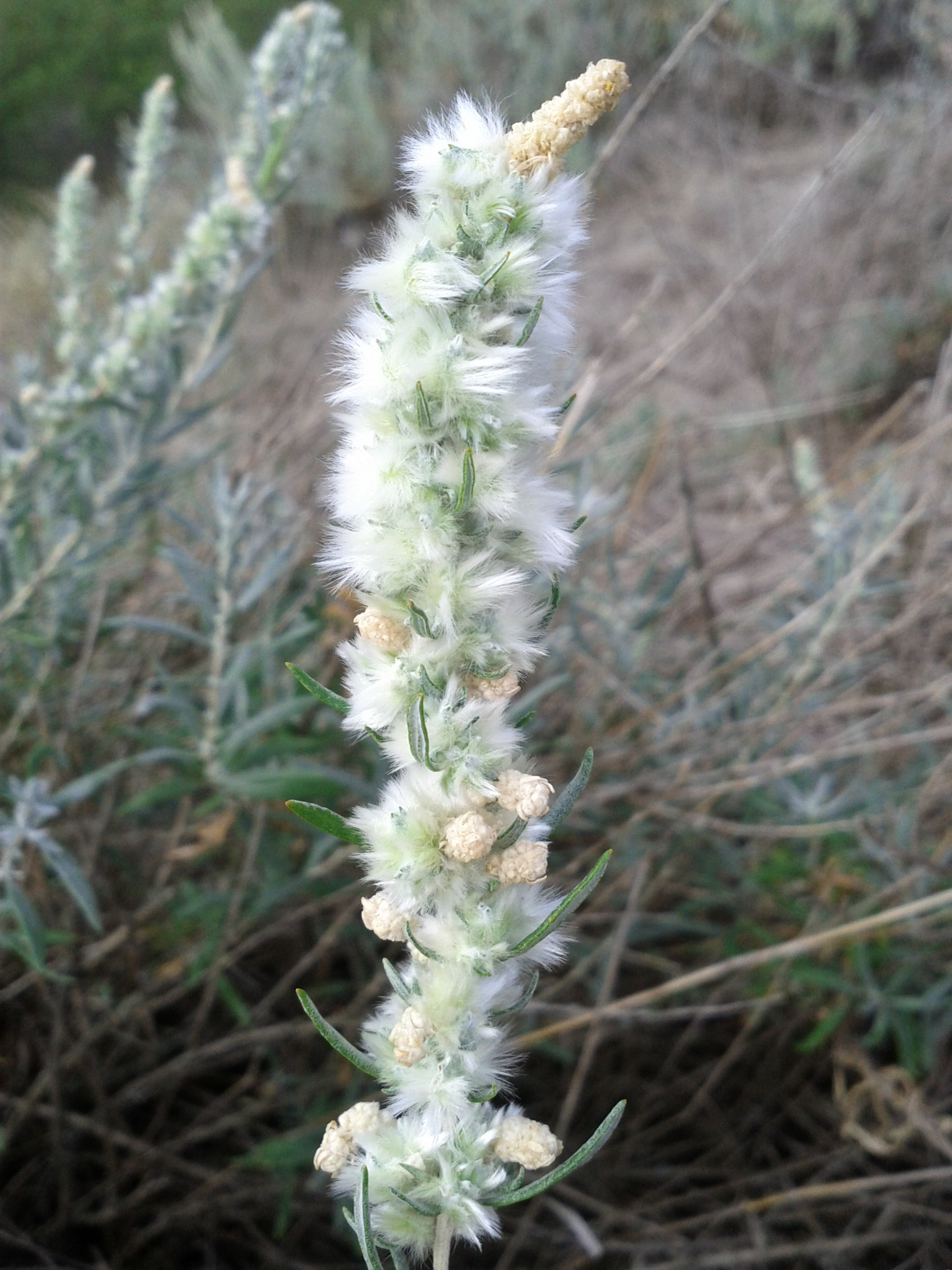 Inflorescence Taxonym: Krascheninnikovia ceratoides ss Fischer et al. EfÖLS 2008 ISBN 978-3-85474-187-9 Location: Natural monument Blauer Berg near Oberschoderlee, district Mistelbach, Lower Austria - ca. 280 m a.s.l. Habitat: dry grassland